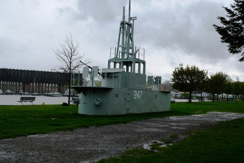 The ONLY RELIC left of the USS DACE 247 that was salvaged now is located at Ellwood A Mattson Lower Harbor park, Marquette , MI (Inscription reads CAPTAIN B Delaney Claggett USN USS DACE)